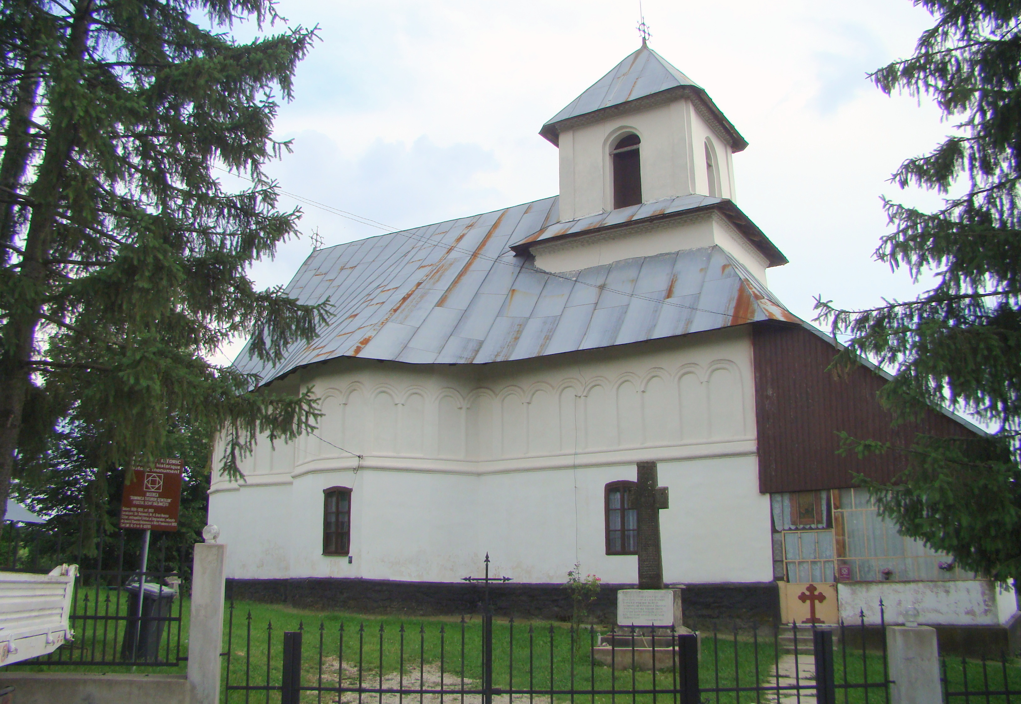 All Saints' church in Râmești, Vâlcea county, Romania